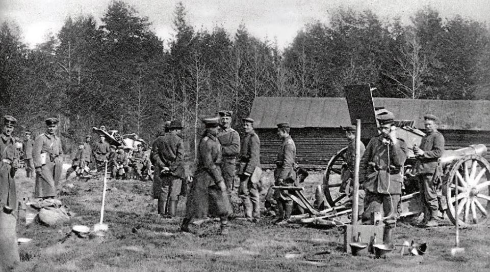 1918 Finnish Civil War: German artillery in Malmi during the Battle of Helsinki.